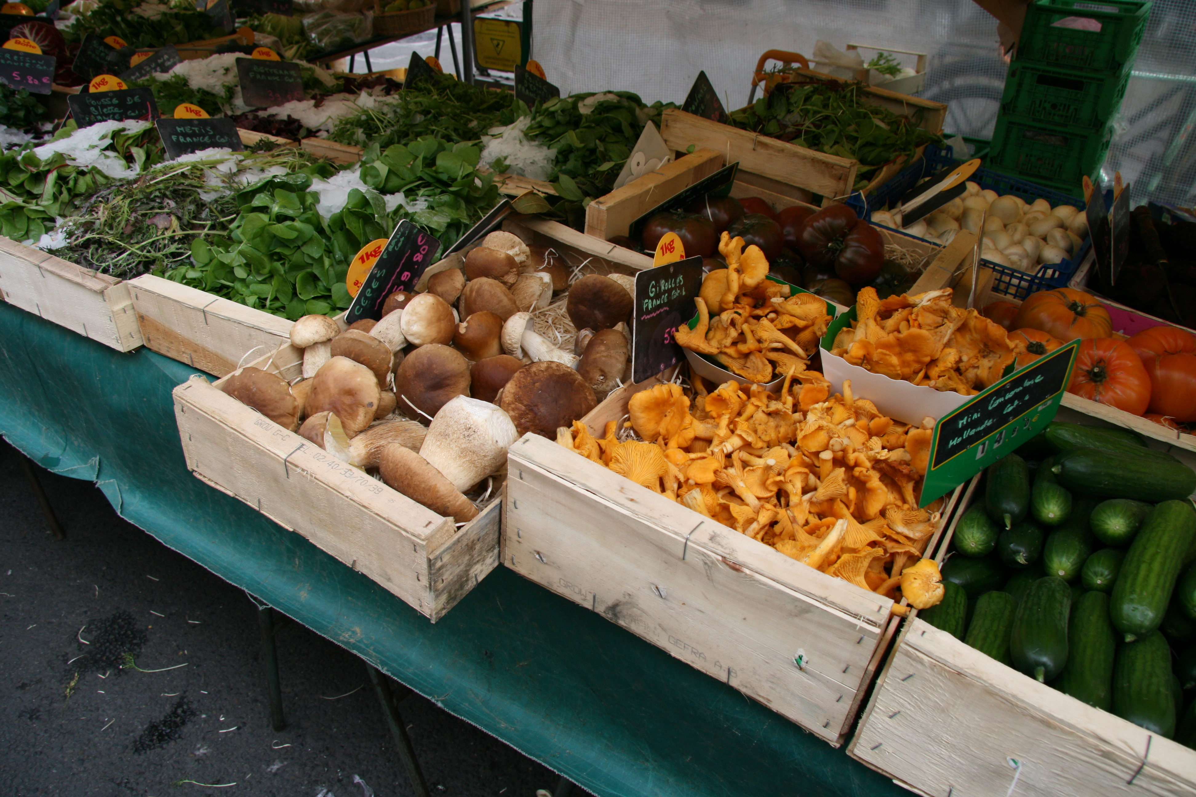 Boletus_edulis and chanterelles on sale at Sunday morning produce market in Rue Montmartre, Paris nr St Eustache.